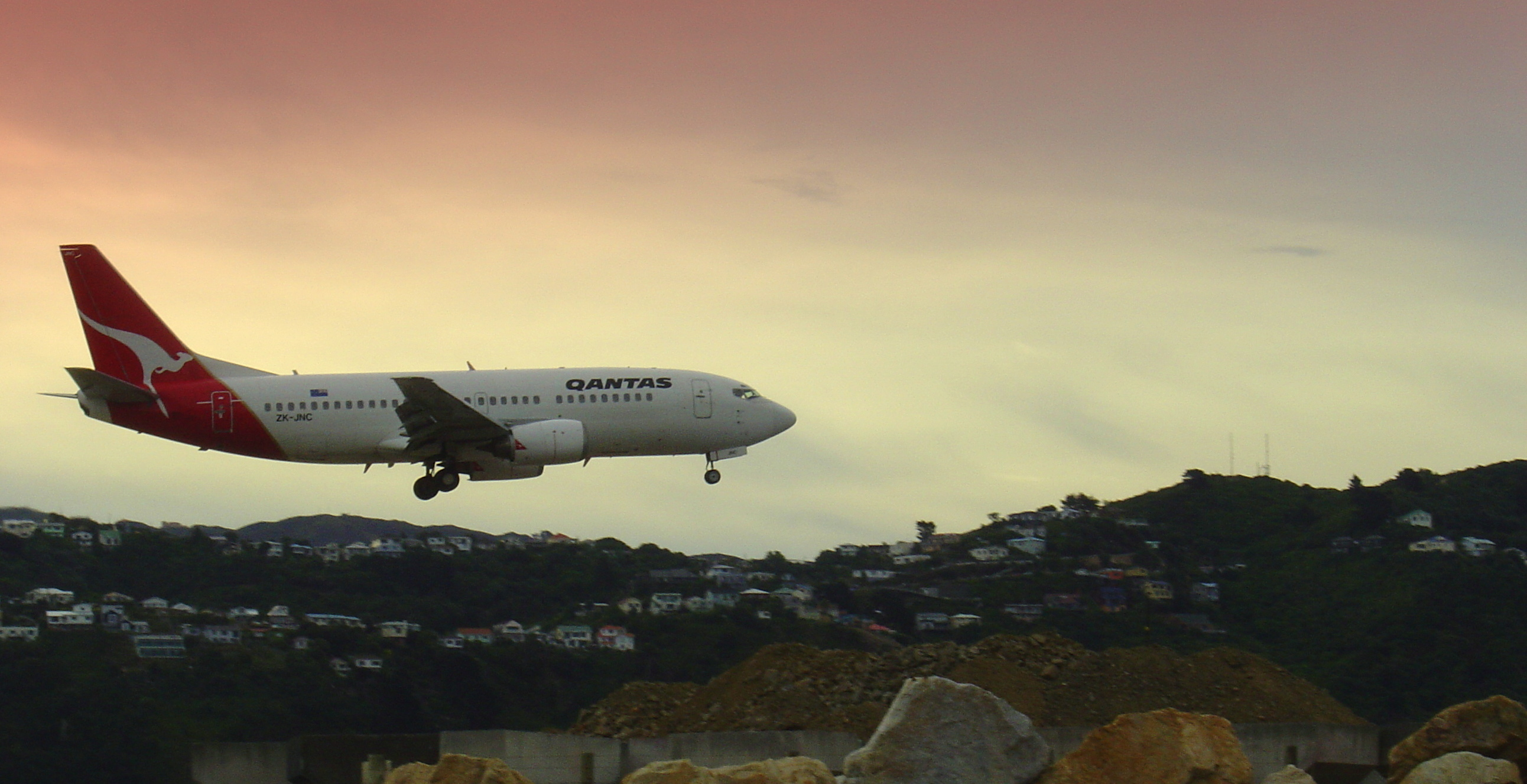 A QANTAS Boeing 737 coming in to land at the Cook Strait end of Wellington Airport